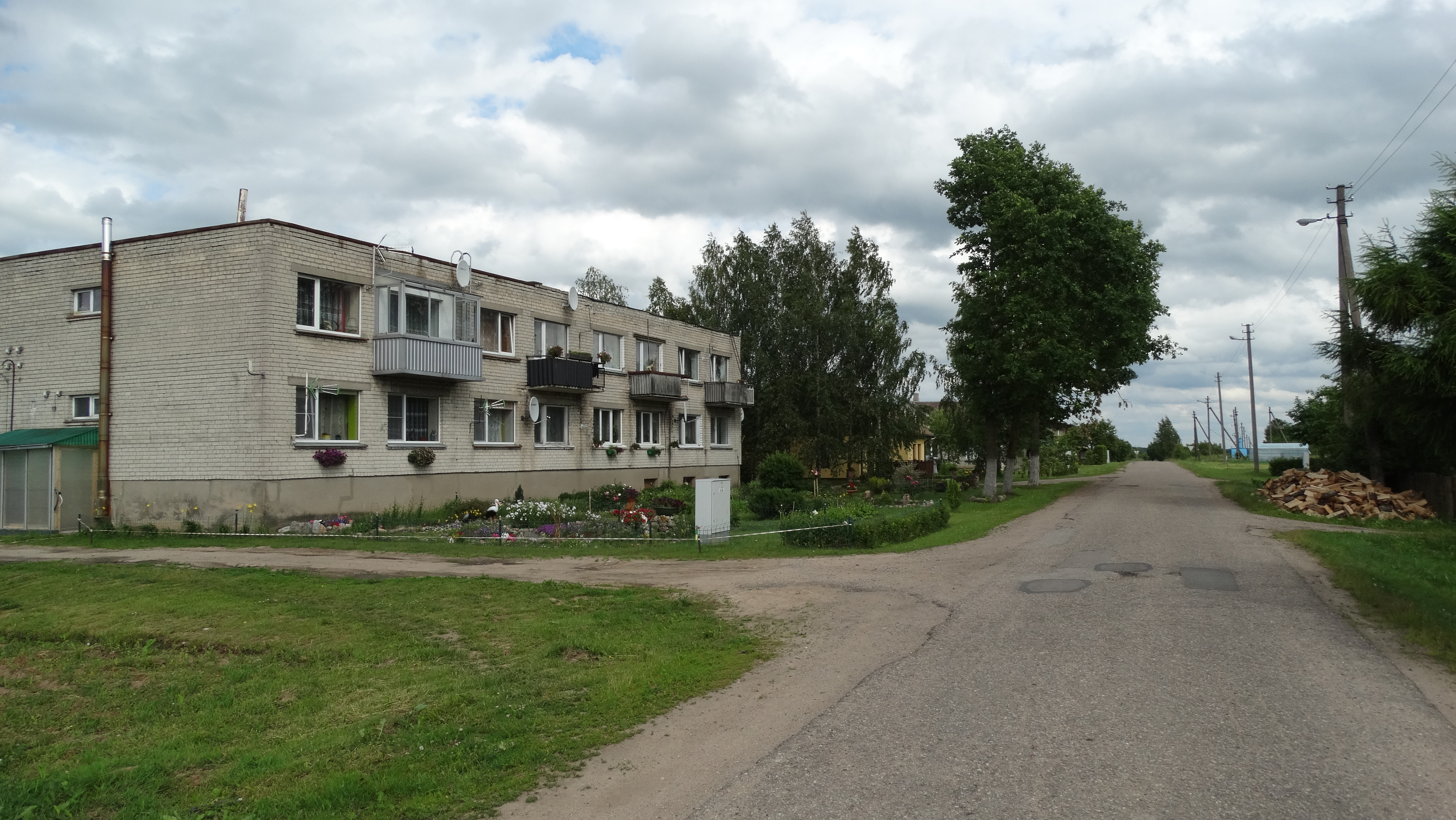 Jauniūnai, Širvintos District, Lithuania